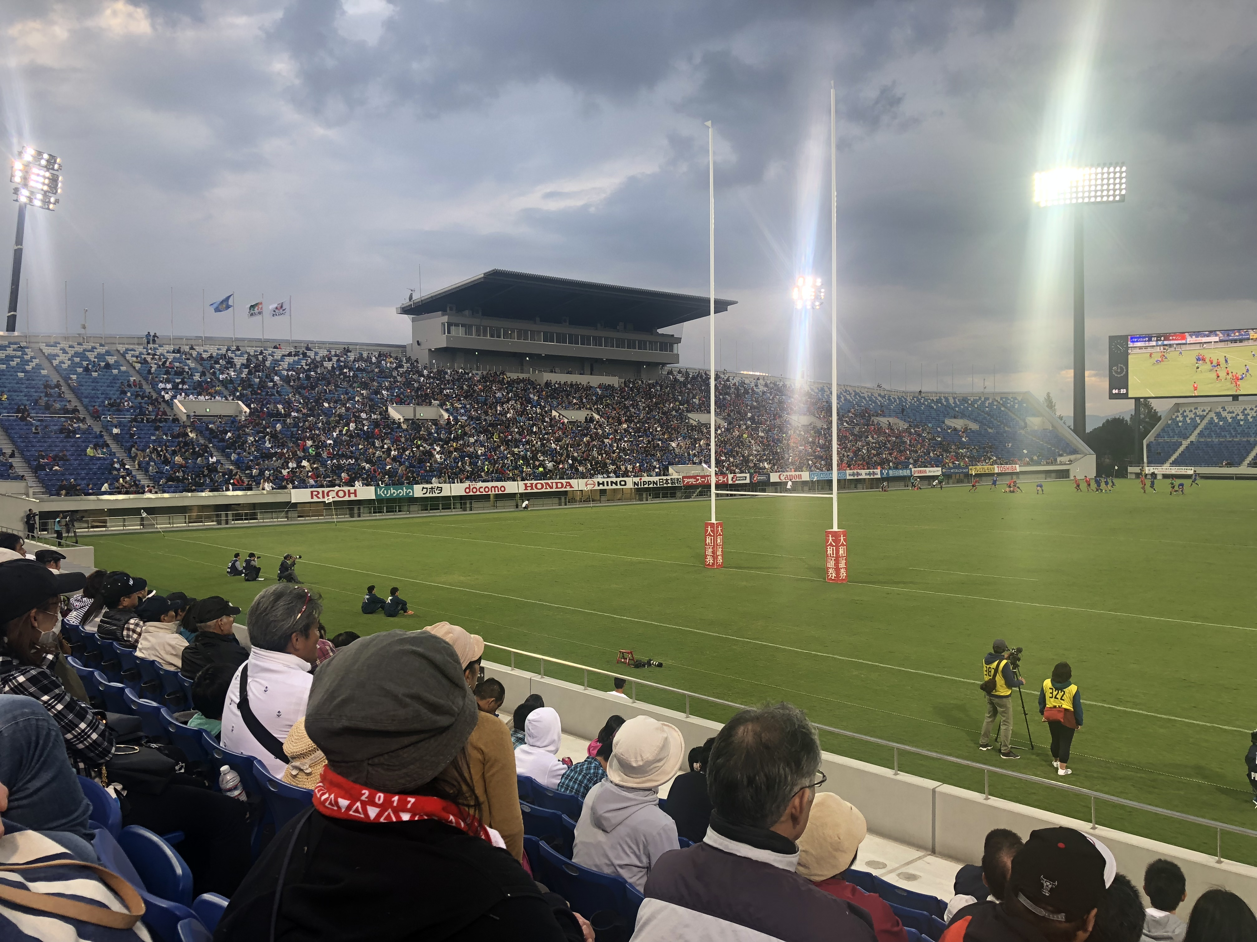 Kumagaya Stadium Saitama Prefecture. Taken on 20 October 2018